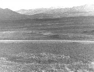 The Gallagher Flint Station Archeological Site, an archaeological site located near the community of Sagwon in the North Slope Borough of the U.S. state of Alaska. The oldest such site in northern Alaska, it was designated a National Historic Landmark on 2 June 1978.